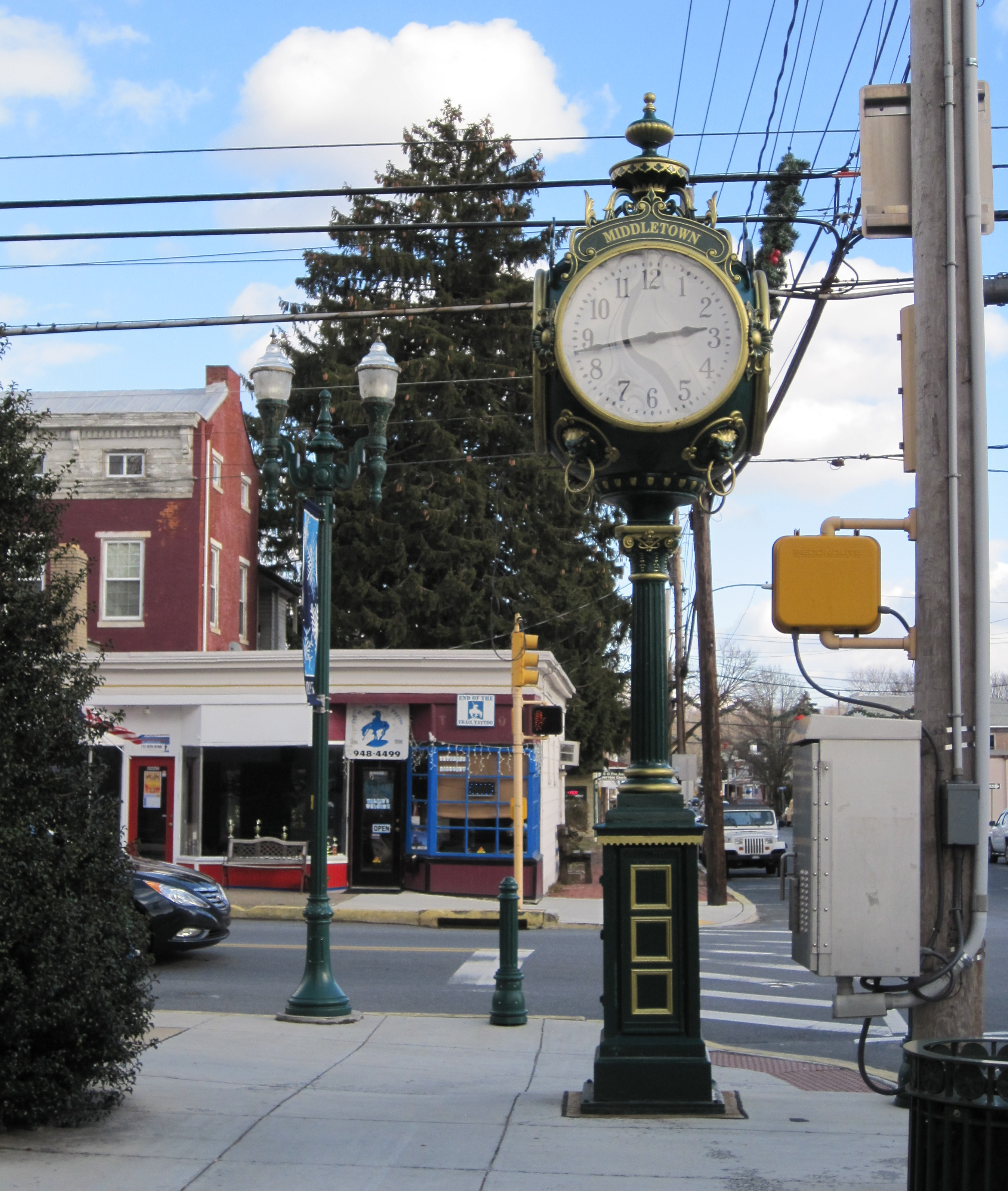 Middletown, PA. Union Street. Photograph taken by uploader. Jan 2013.